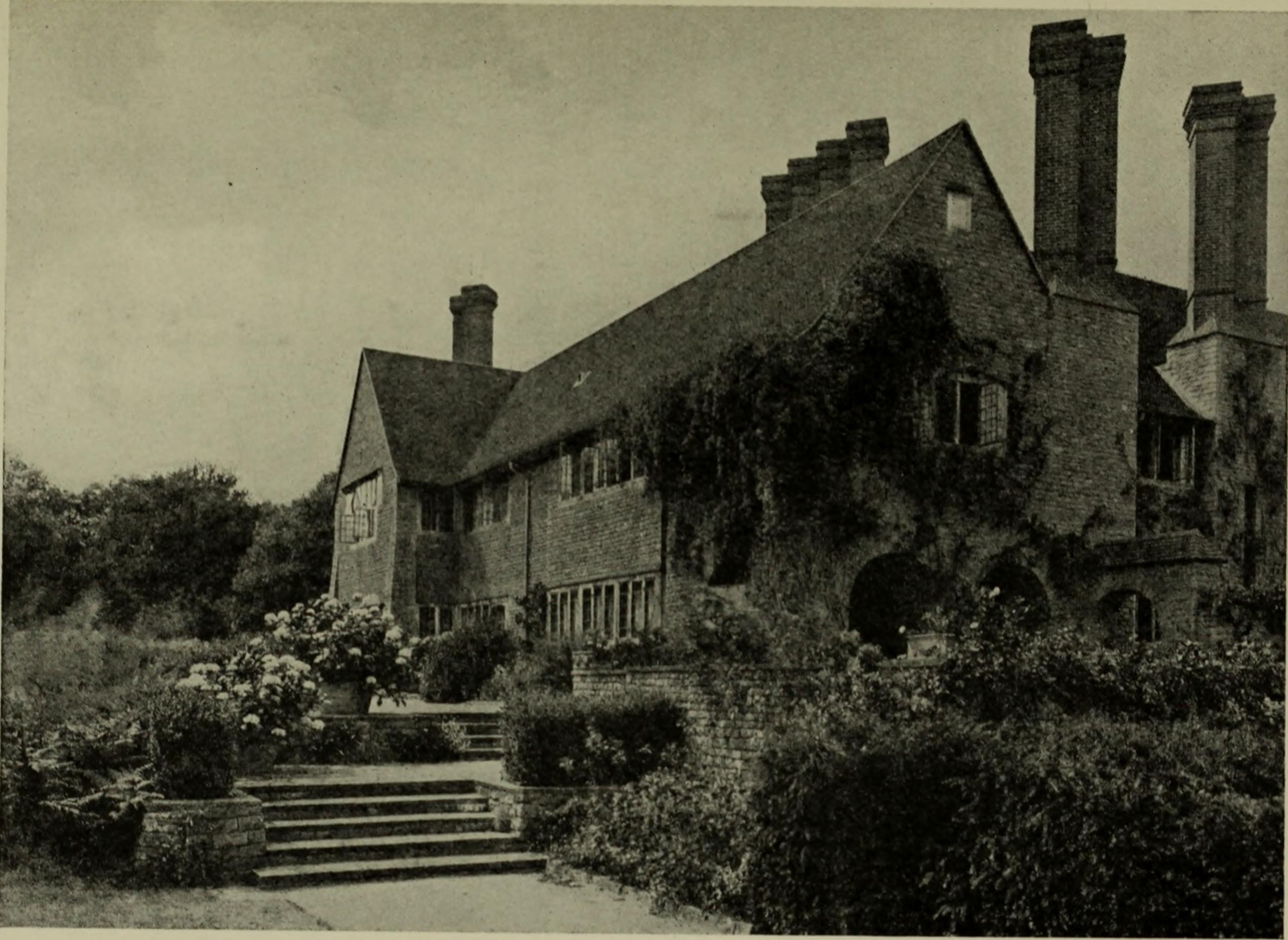 Illustration from Lutyens houses and gardens (1921) featuring Orchards in Surrey.